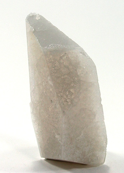 Quartz Locality: Pine Creek Mine, Mount Morgan, Bishop, Tungsten Hills, Tungsten Hills District (Bishop District), Inyo County, California, USA (Locality at ) Size: small cabinet, 5.8 x 2.7 x 0.9 cm Polyhedron Quartz Totally bounded by faces, this translucent and partially hollow specimen, occurs as the non crystalline center of certain agates. Definitely not a common occurrence in the stock of mineral dealers. I have never seen one of these from anywhere but Brazil. From California ?!?! NOTE FROM A FRIEND: These polyhedrons occurred in a Tungsten mine near Bishop, California. The correct spelling is “Pine Crik”, according to Ed Weber (Weber’s Minerals of Encinitas). I got mine from Ed, who had them in his geode collection. According to Ed; these were found in the late 60’s through the early 70’s. - Russ Rizzo 5.8 x 2.7 x 0.9 cm